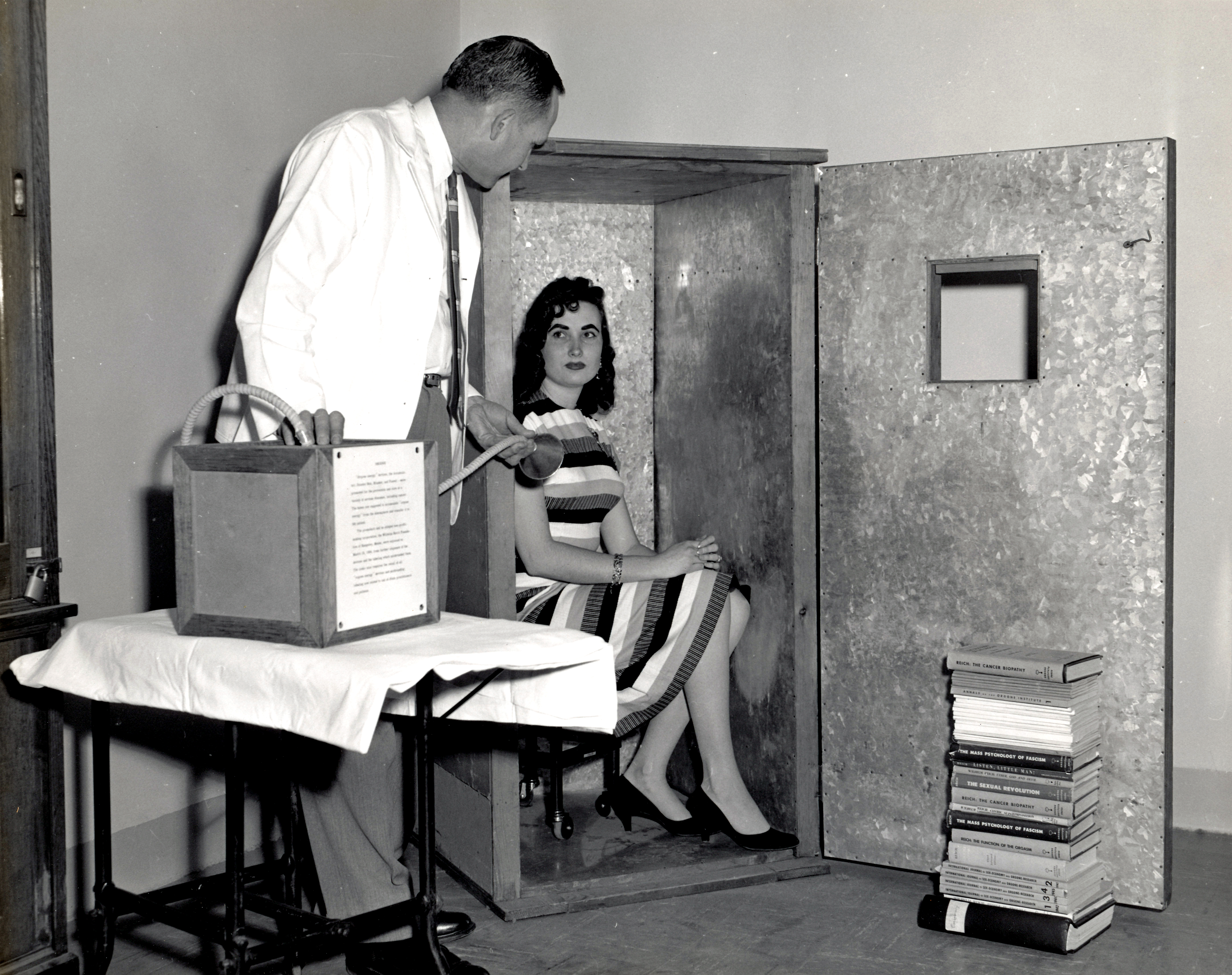 Psychiatrist Wilhelm Reich declared the existence of a universal healing and revitalizing force, called orgone, and created devices (the booth and breathing apparatus are pictured here) to capture and administer it. He was fined and eventually jailed in the 1950s. For more information about FDA history visit